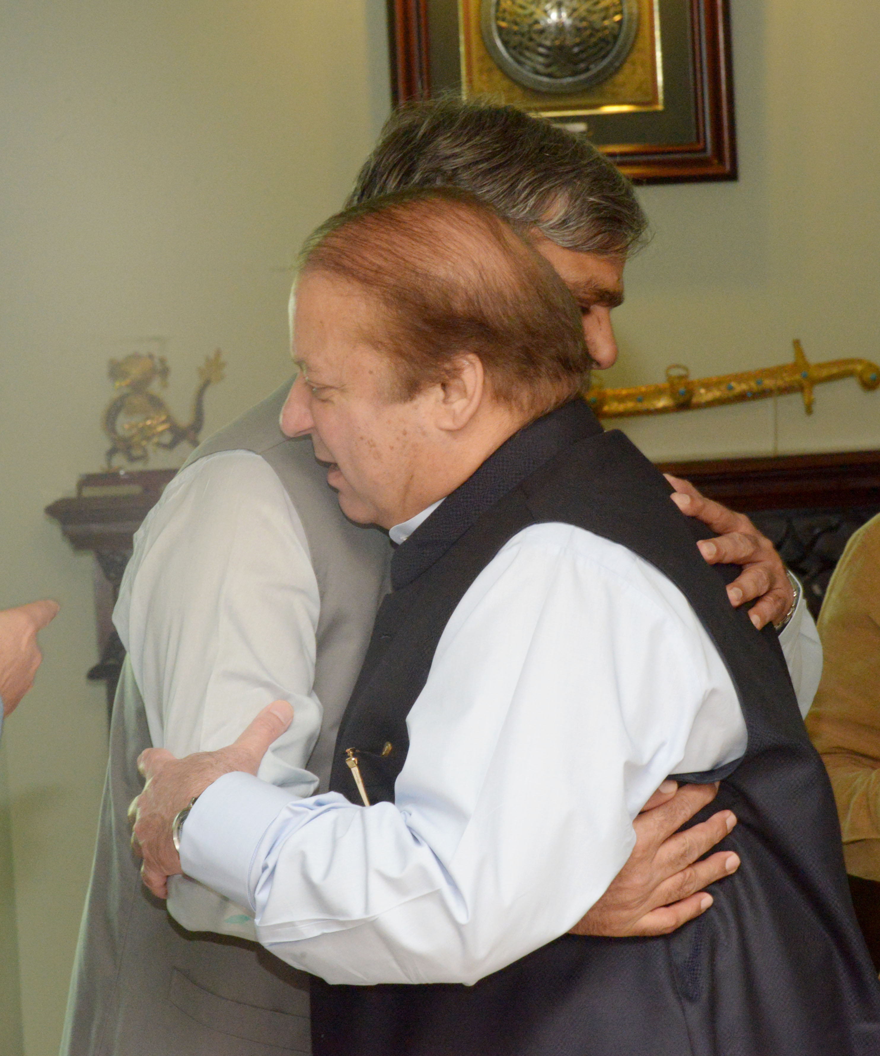 Prime Minister embracing Chaudhry Muhammad Barjees Tahir on the landslide victory of PMLn in Gilgit Baltistan